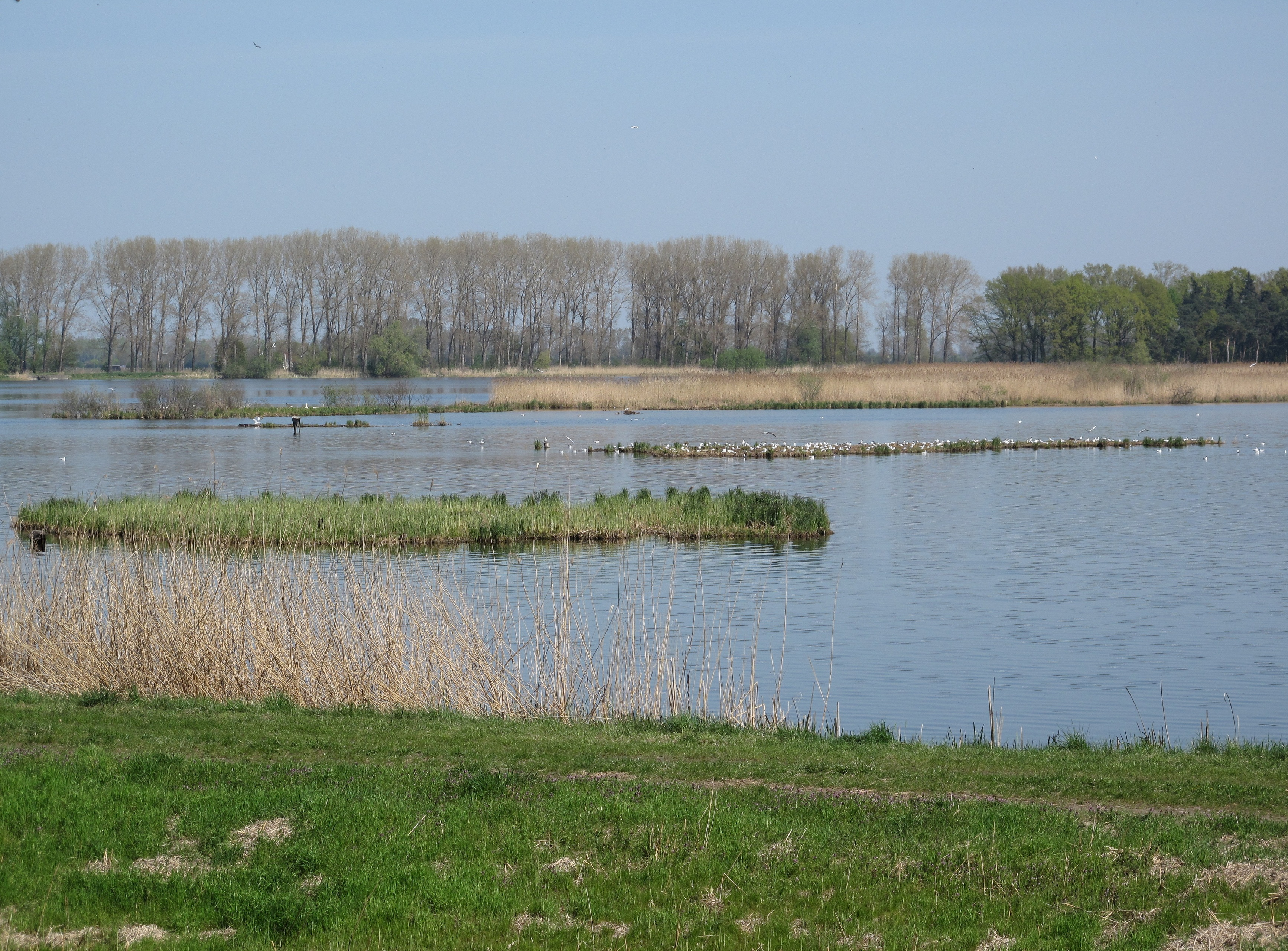 The Europäisches Vogelschutzgebiet Altfriedländer Teich- und Seengebiet is a European bird protection area (SPA) around Altfriedland, a village of the municipality Neuhardenberg in the District Märkisch-Oderland, Brandenburg, Germany. The Kietzer See is the body of water at the center of the area.